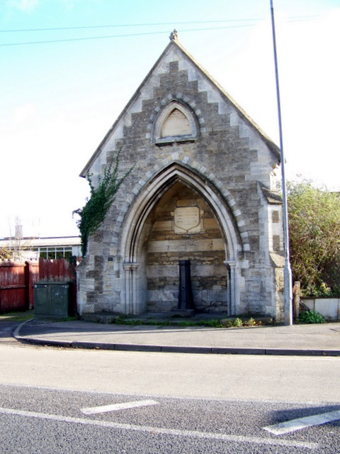 Water pump, Southwick. For a close up of the pump see 1586065